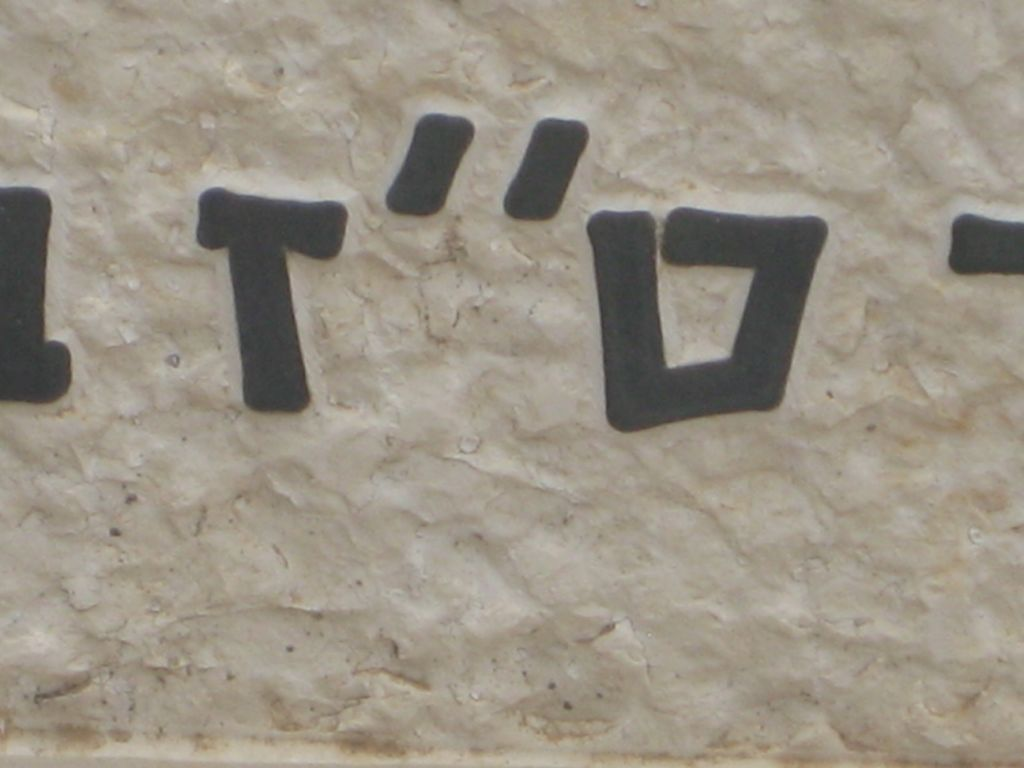 Detail Closeup of Headstone with date TET-Zayin clearly visible